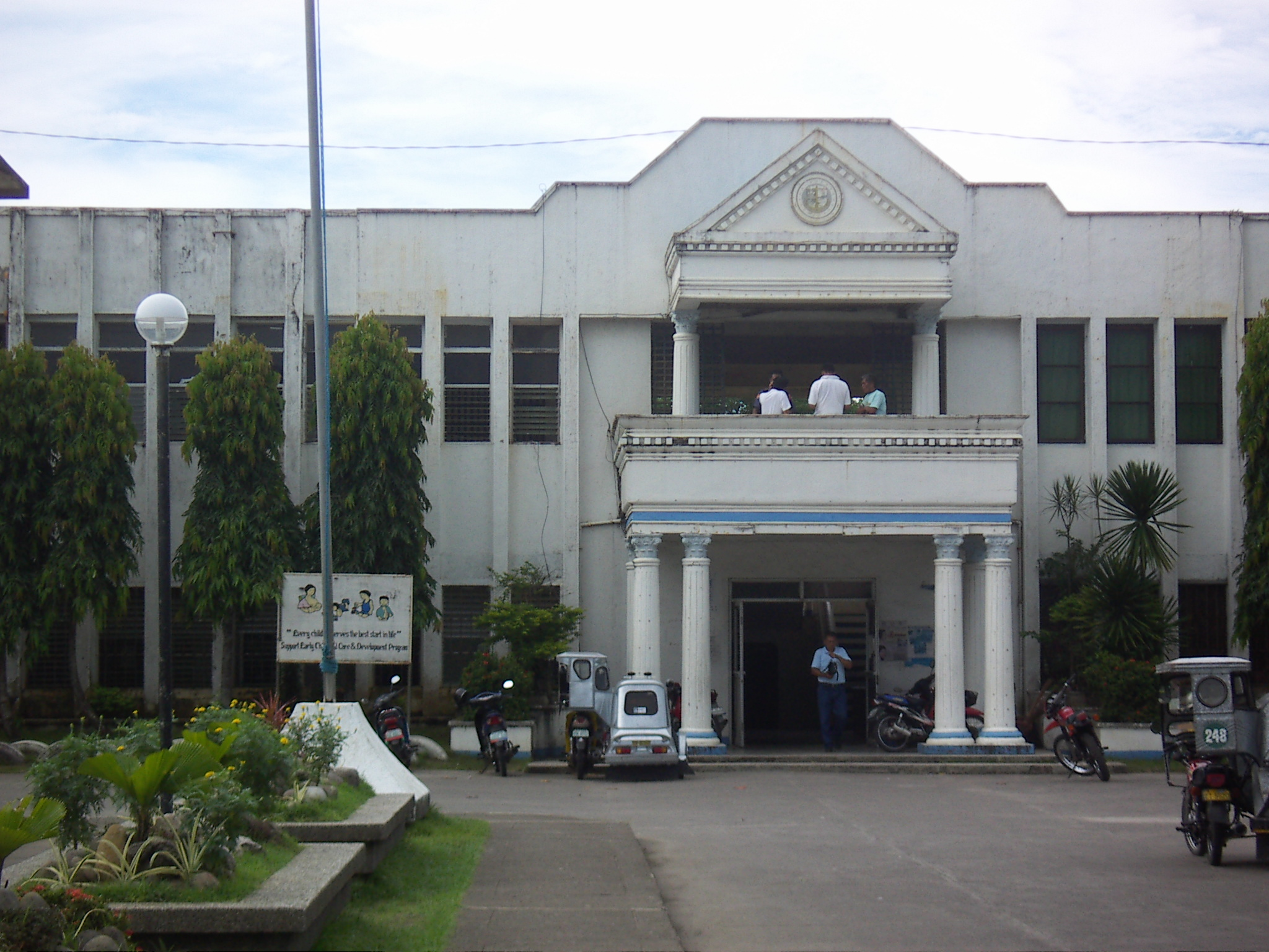 Mercedes, Camarines Norte, Philippines